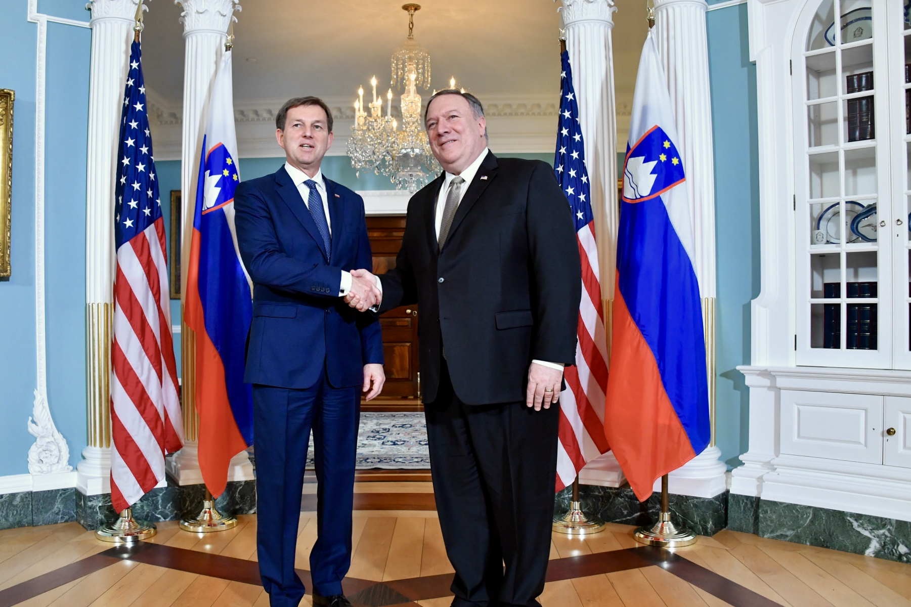 U.S. Secretary of State Michael R. Pompeo meets with Slovenian Foreign Minister Miro Cerar at the Department of State, December 14, 2018. [State Department Photo by Michael Gross/ Public Domain]